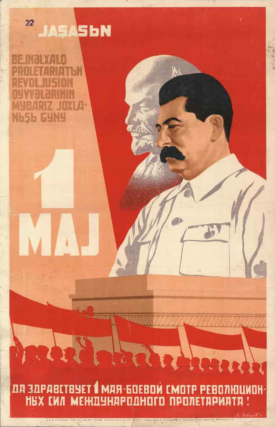 Poster of Azerbaijan 1938. Stalin, Lenin